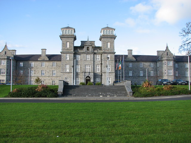 Clarion Hotel, Sligo The imposing front entrance to the Clarion Hotel in Sligo. The hotel had been a hospital for the mentally ill.The grounds are extensive and include two former chapels which have been converted into conference centres and/or meeting places for various organisations.